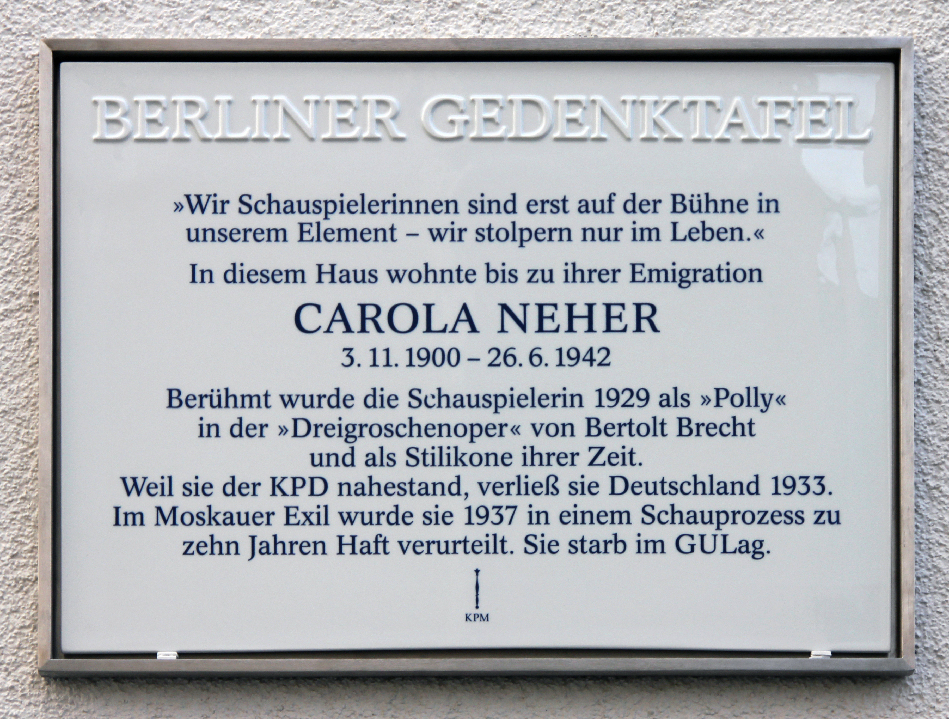 Berlin memorial plaque, Carola Neher, Fürstenplatz 2, Berlin-Westend, Germany